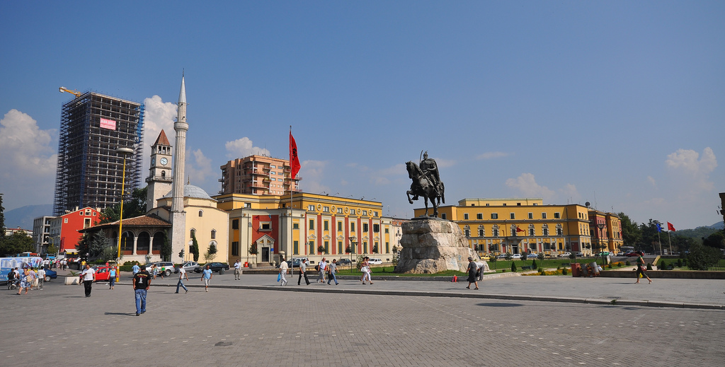 Skanderbeg Square